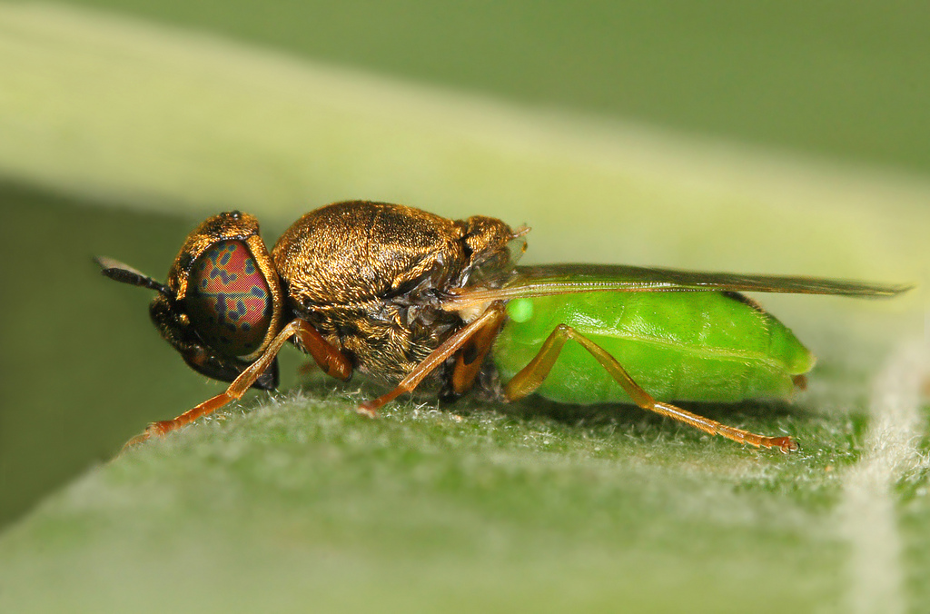 Oplodontha viridula I found this beautiful fly near the pond. I was surprised that the fly looked as covered with gold. It's belly was sort of phosphorous...!!! :) Please make a view full size of my photos... thanks! :)